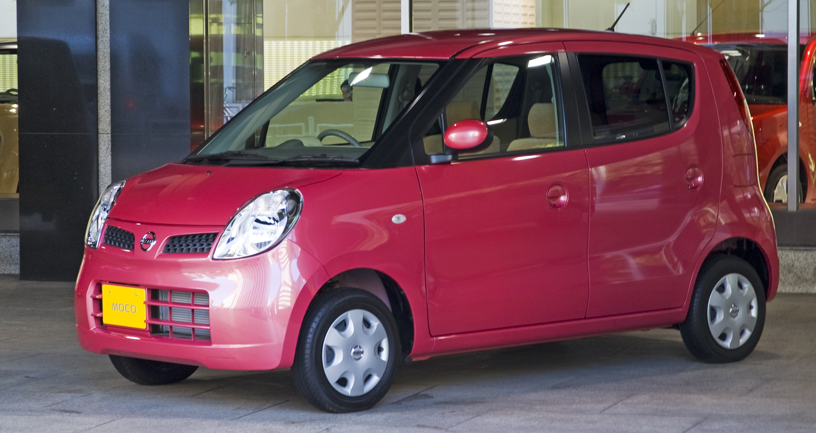 2nd generation Nissan Moco photographed in Nissan Gallery (Chuo, Tokyo)